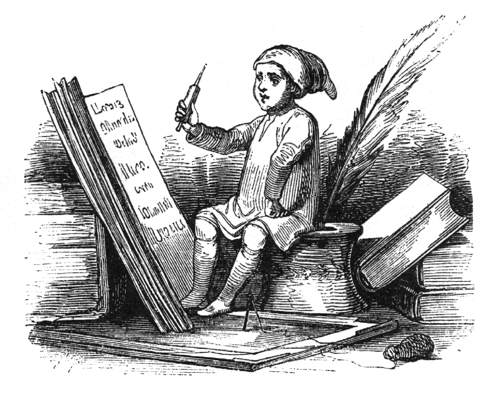 nisse writing